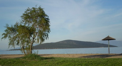 Beach near Kyparissi with view on Atalanti island